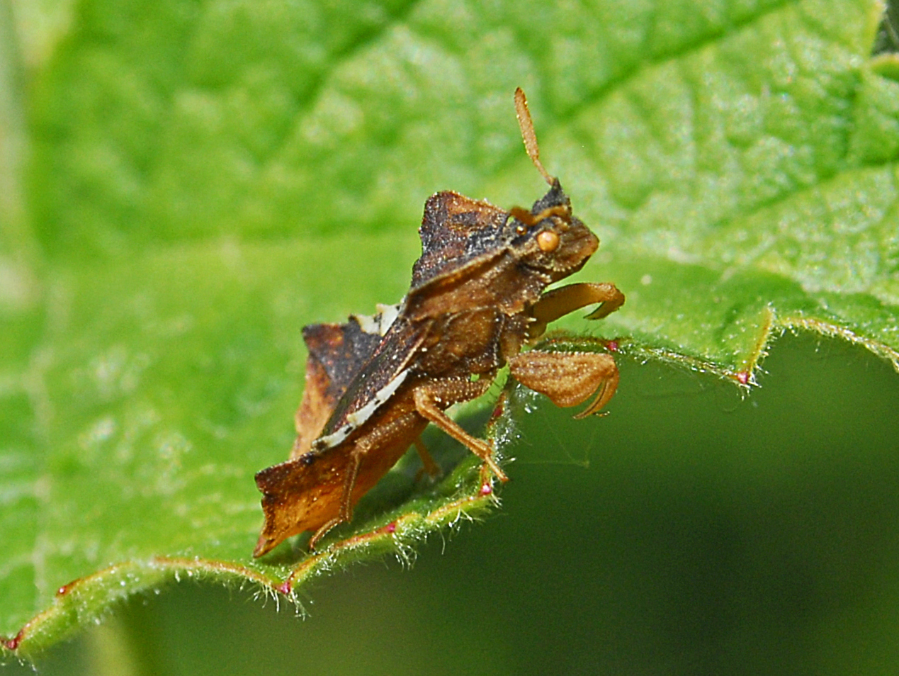 Phymata crassipes. Male. Cerreto R. Alessandria, Italy